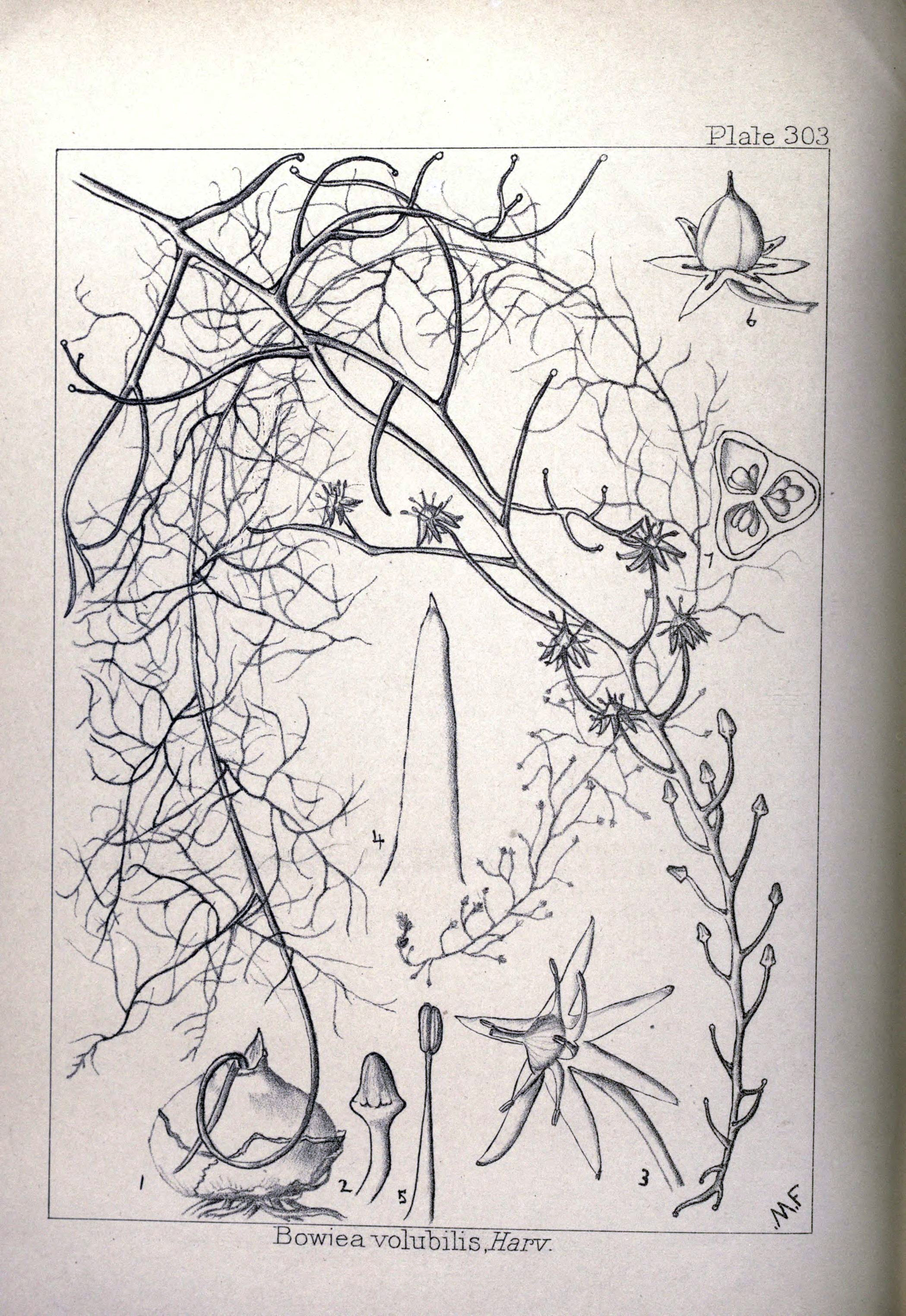 Bowiea volubilis Harvey - illustration from Natal plants, vol. 4: t. 303 (1903-1906) - Wood, J.M., Evans, M.S.